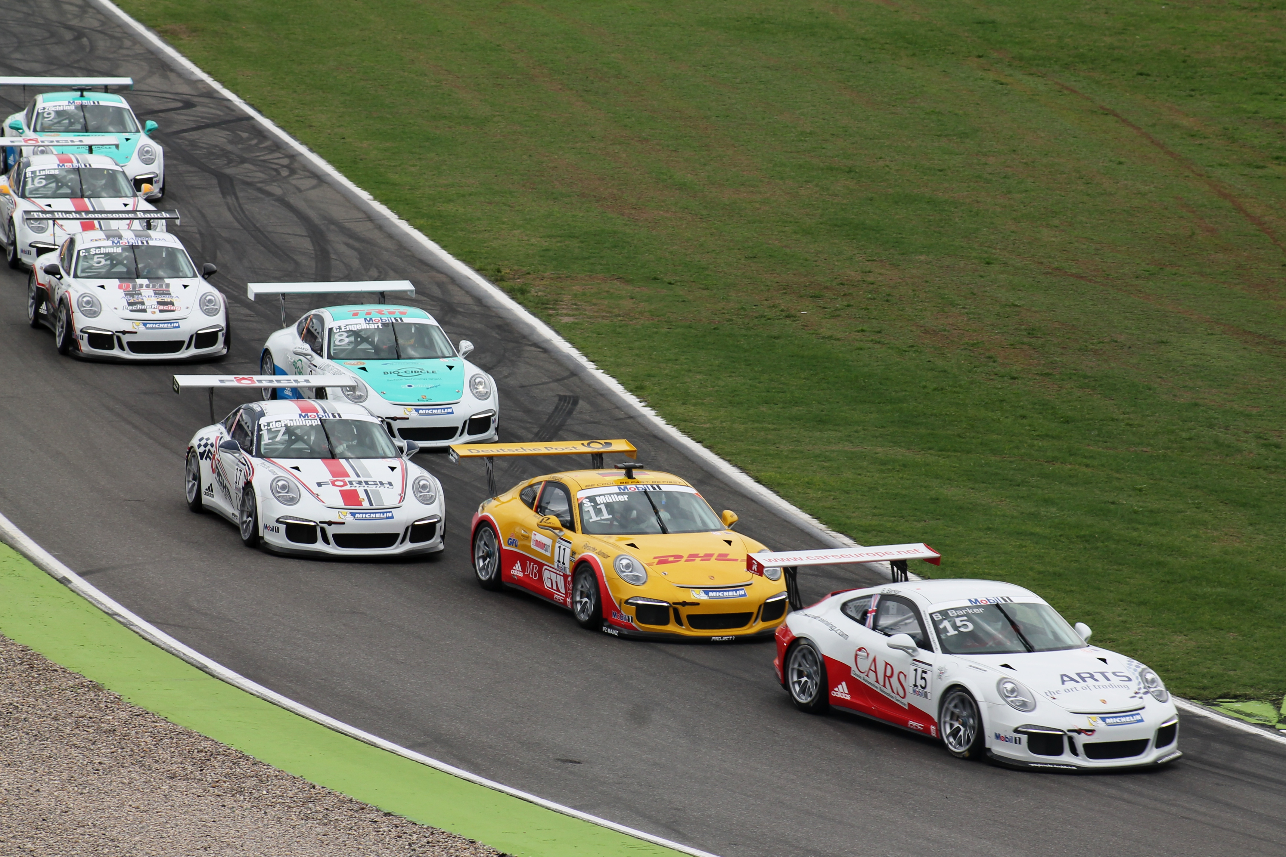 Sunday's Porsche Supercup race approaching Sachskurve at Hockenheimring.